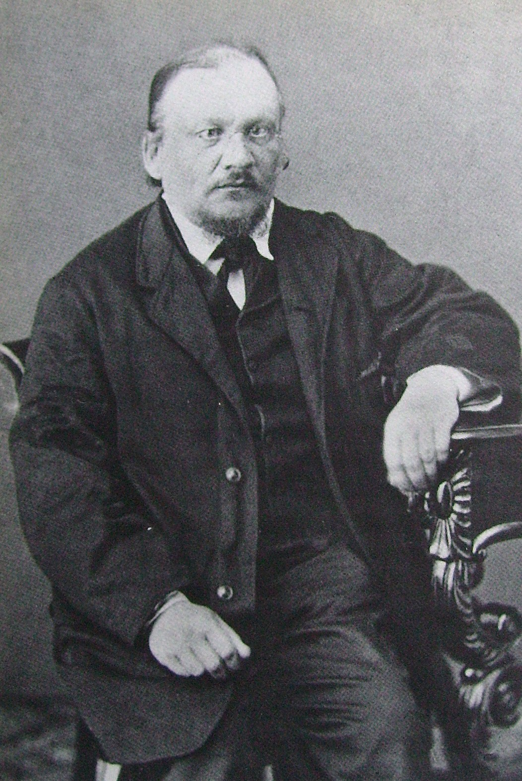 Picture of Karl Konstantin Tigerstedt, Finnish historian